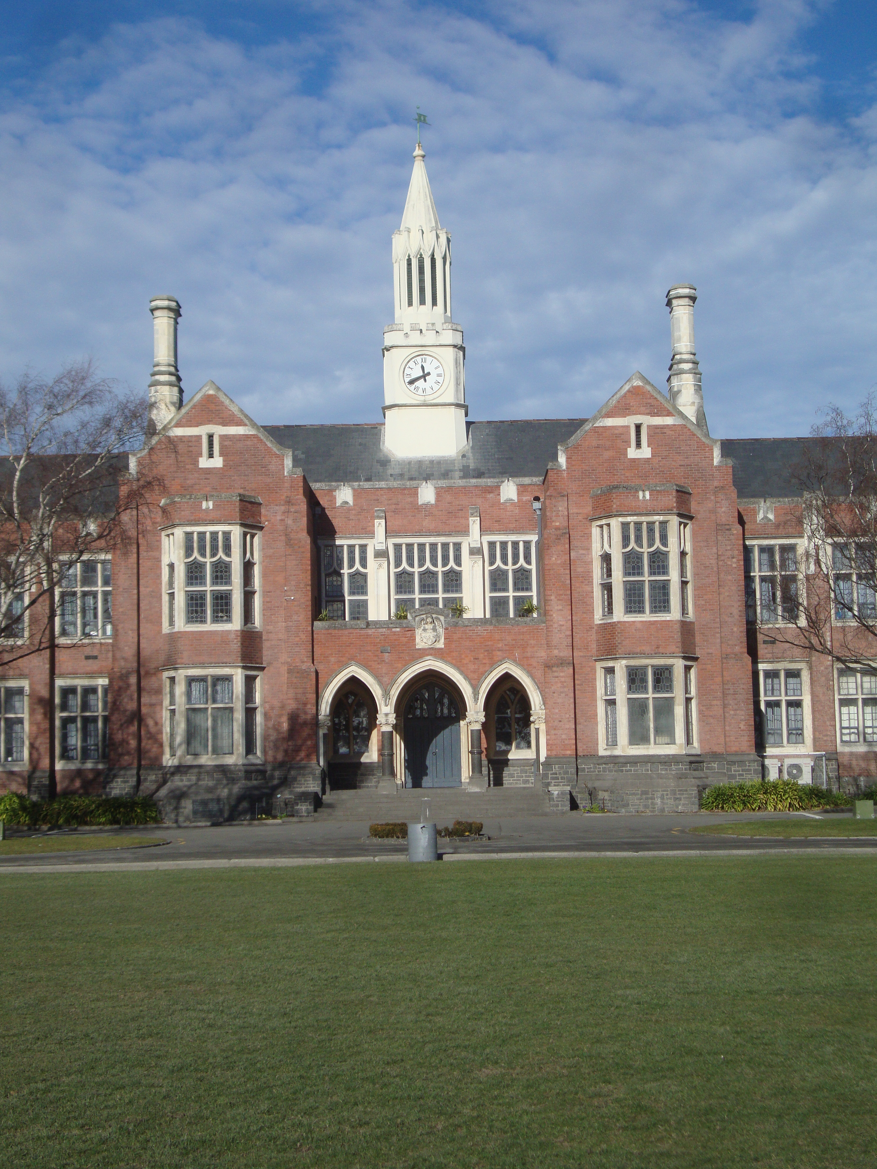 Christchurch Boys' High School in July 2012.